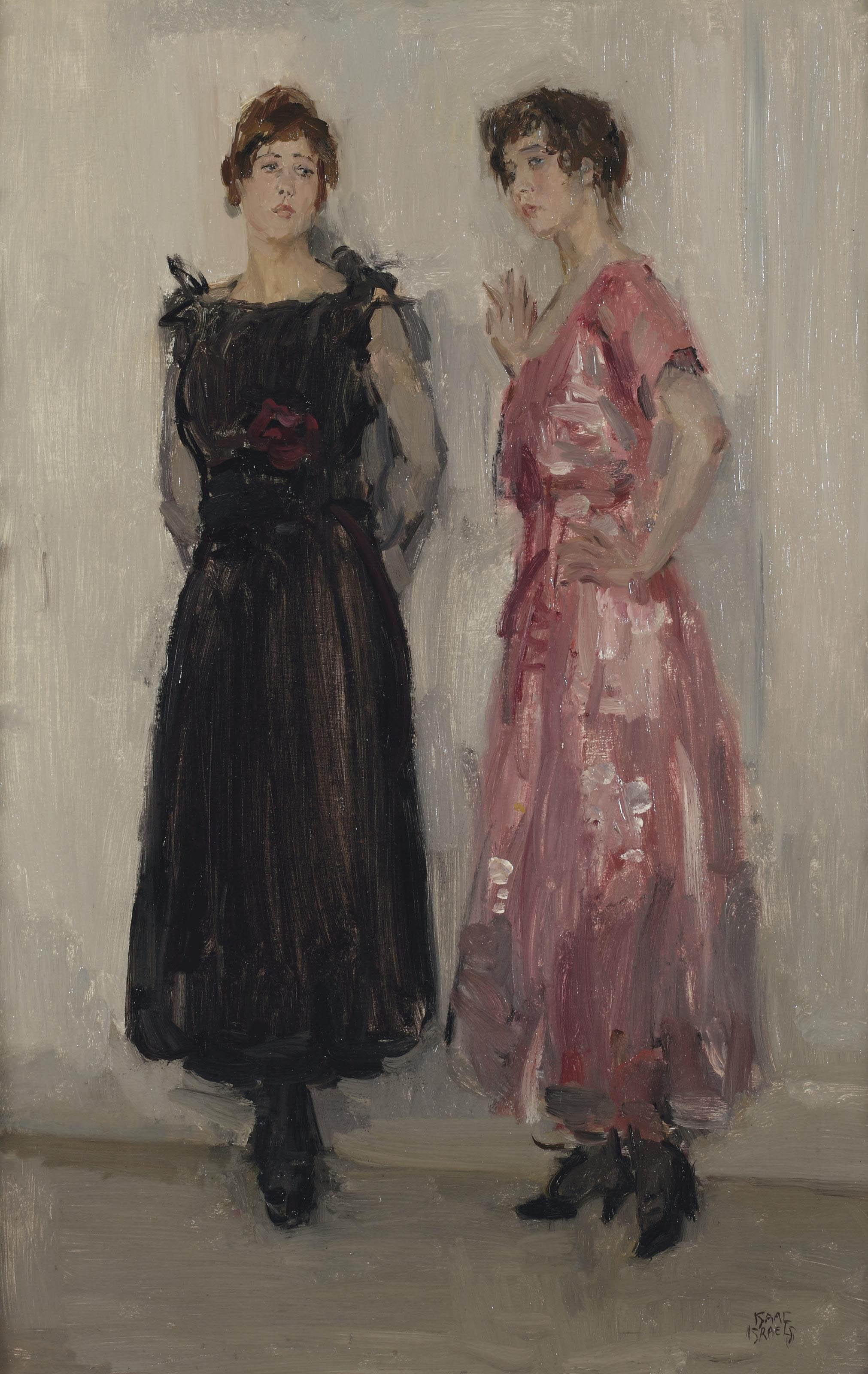 Ippy (1895-1964) and Gertie (1895-1975) Wehmann posing at fashion house Hirsch, Amsterdam